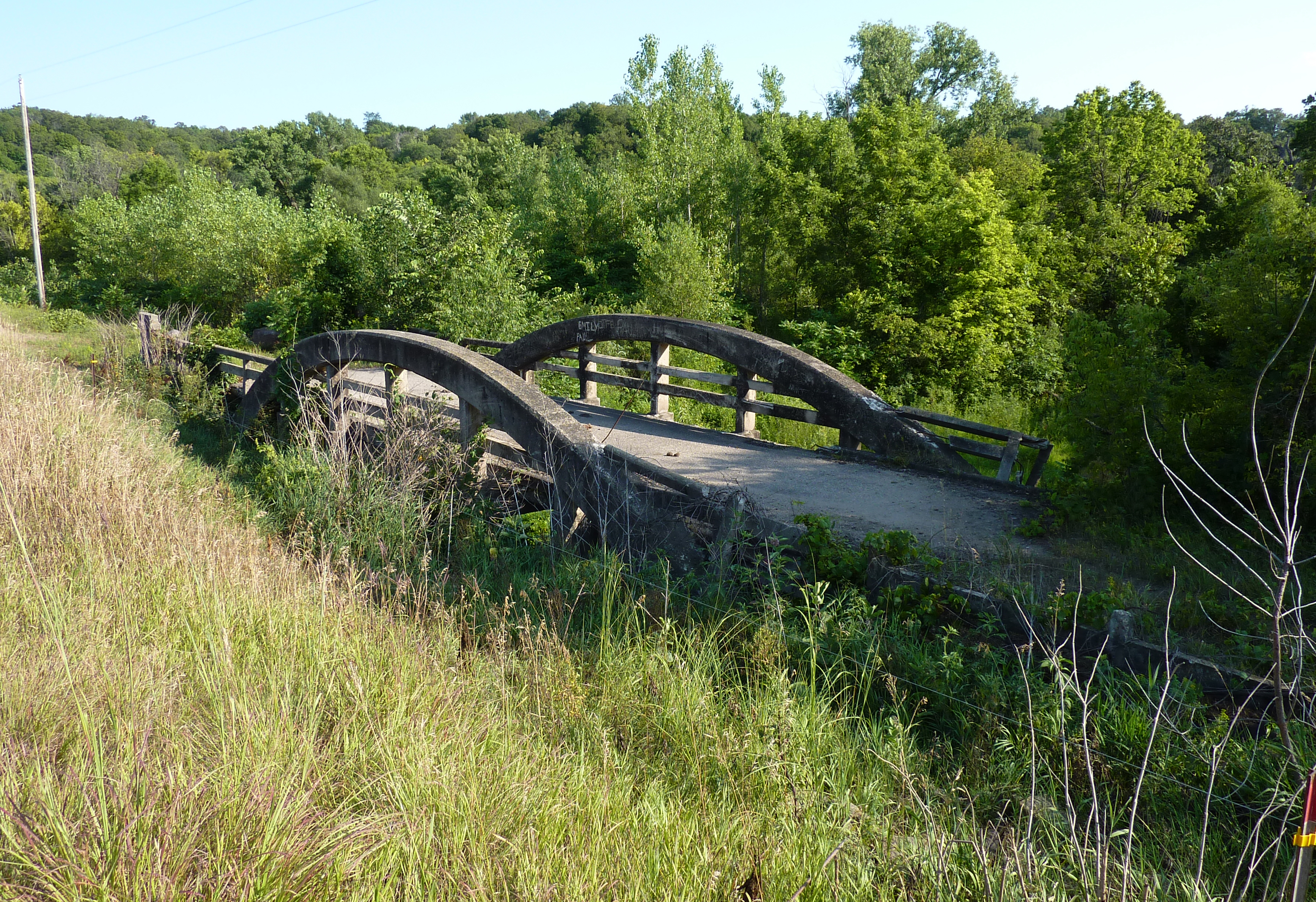 Marsh Concrete Rainbow Arch Bridge, Blue Earth County, Minnesota, USA.